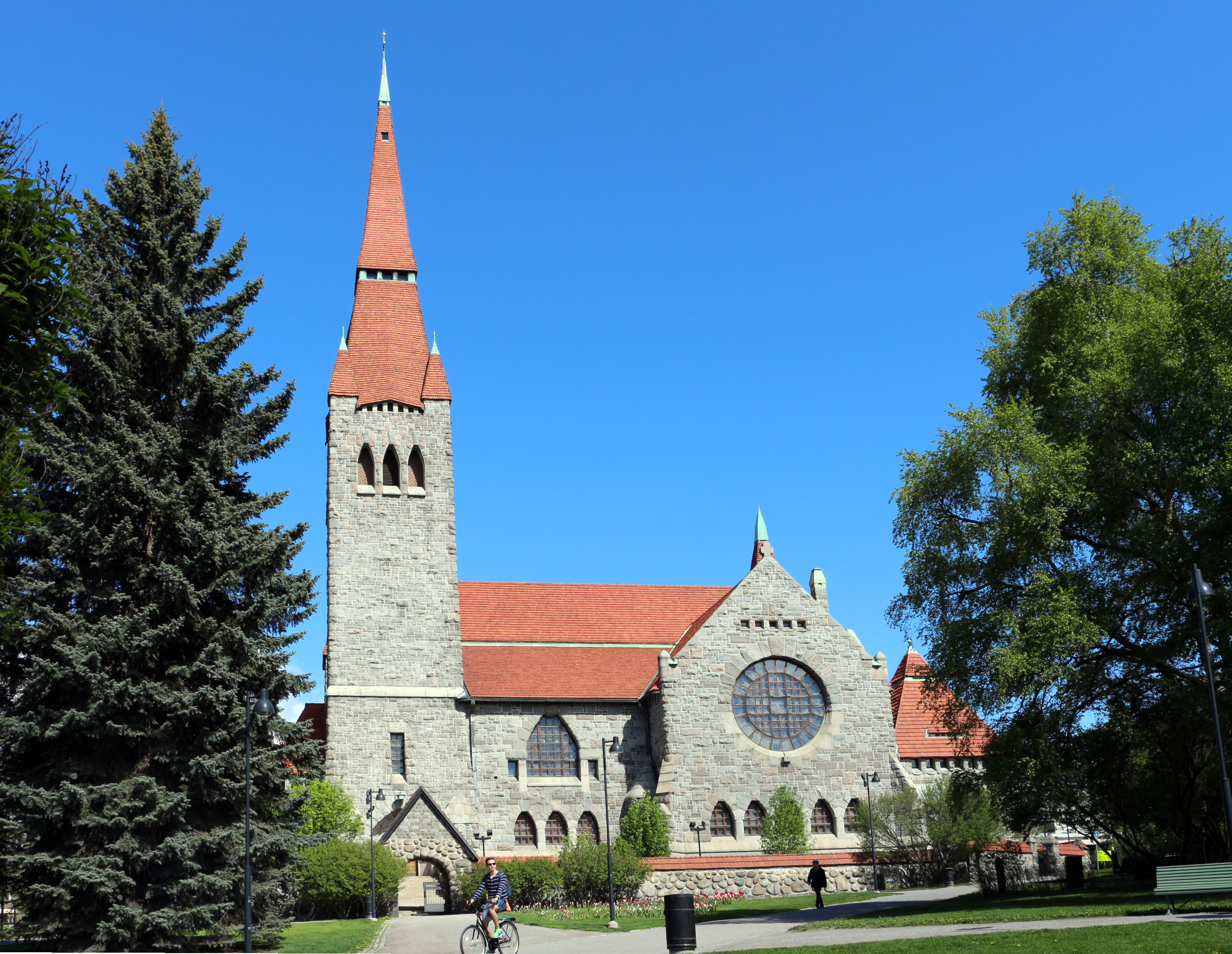 Tampere